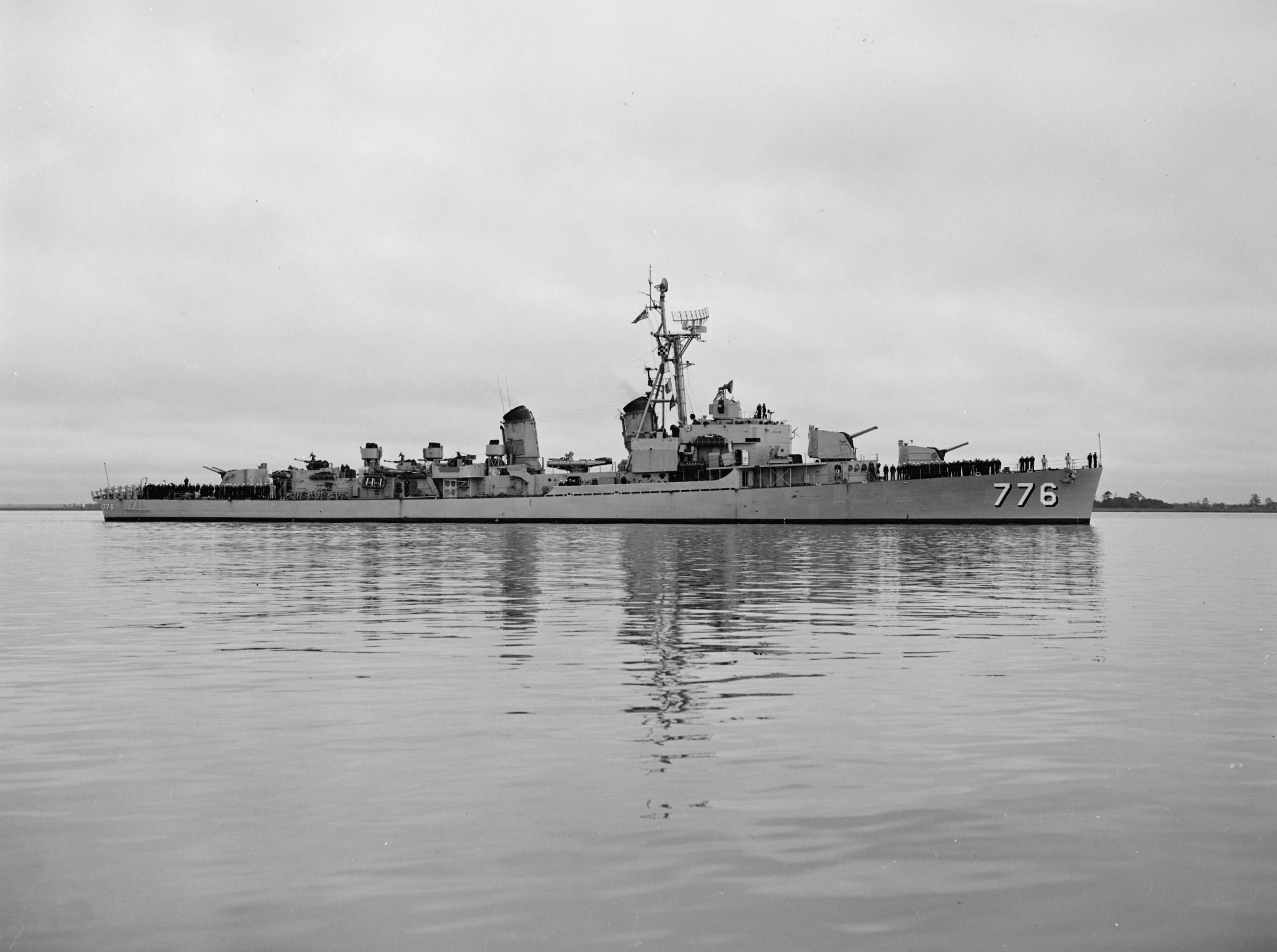 The U.S. Navy destroyer USS James C. Owens (DD-776) underway off Charleston, South Carolina (USA), circa in 1950.